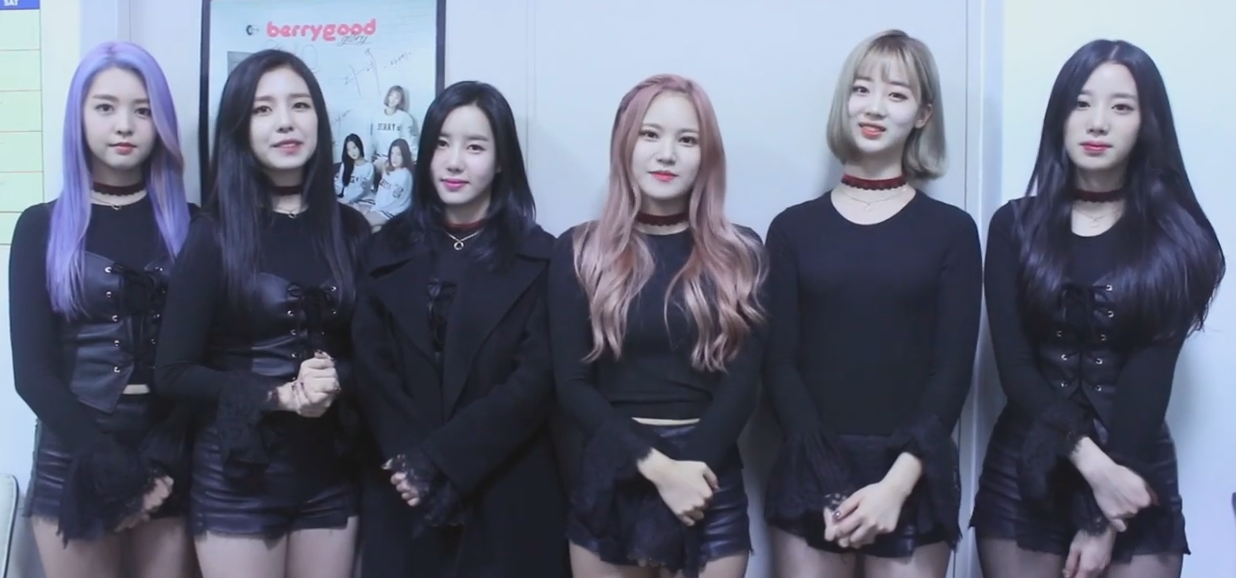 Berry Good 수능 응원 영상, 15 November 2016